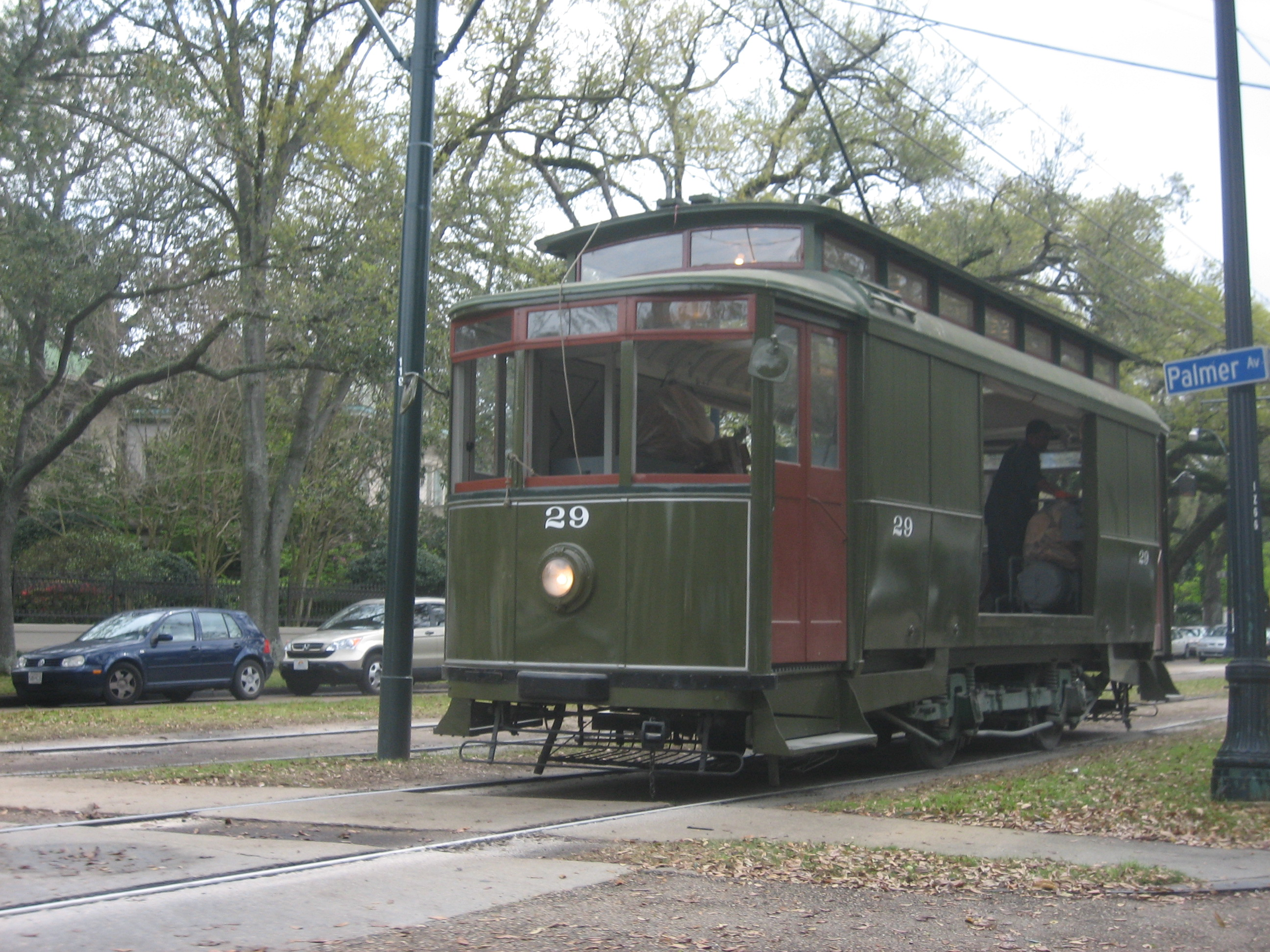 New Orleans: Oldest still functional electric tram in the city, this 19th century Bacon & Davis streetcar, considered obsolete after newer larger trams were aquired for the streetcar lines after World War I, has been maintained as a maintanance vehicle. St. Charles Avenue.